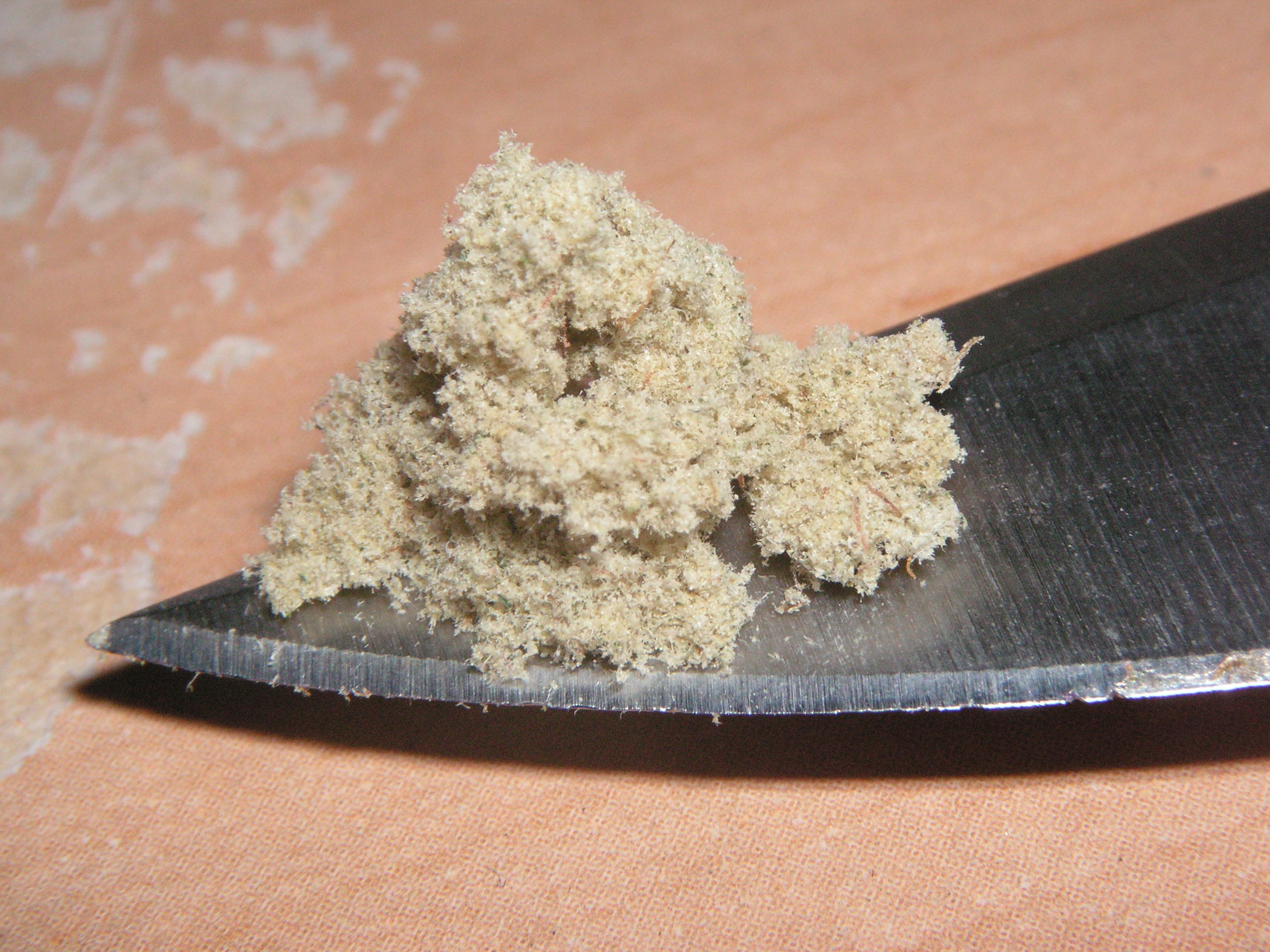 Kief